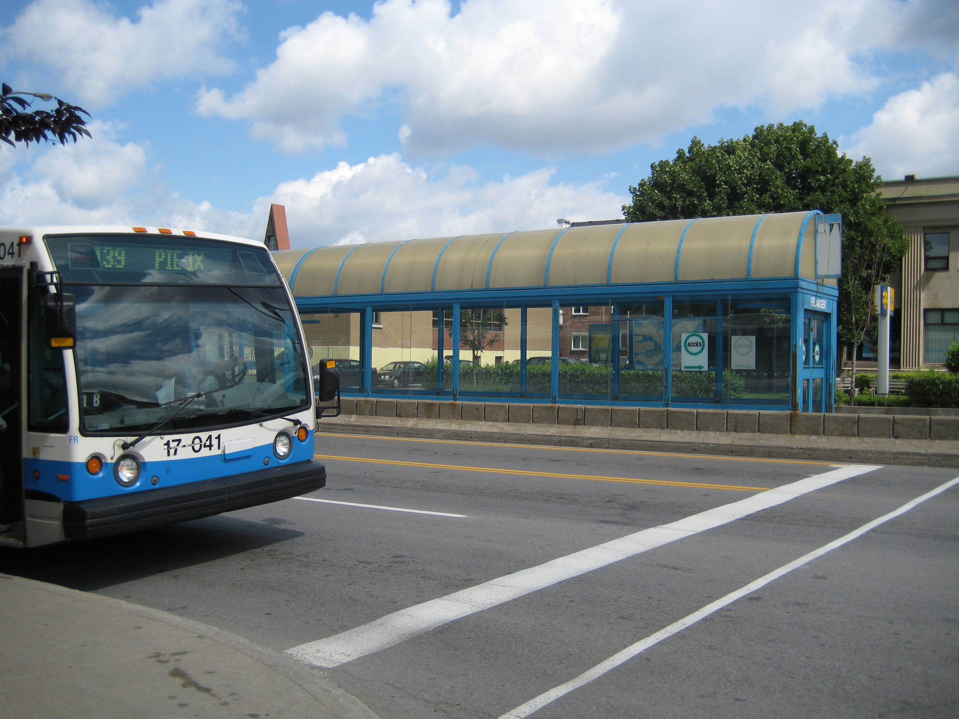 Bus Rapid Transit shelter on Pie-IX and Belanger, Montreal